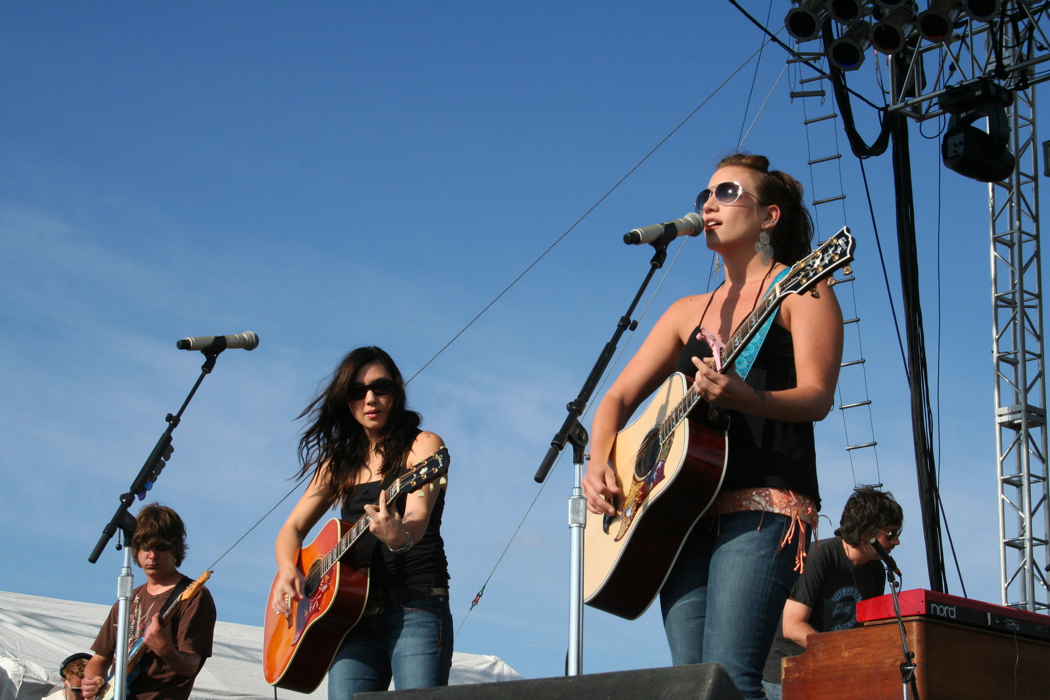 The Wreckers on stage during the festival Birthday Bash '07.